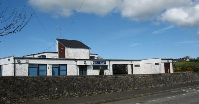 Ysgol Gynradd Llanfechell Primary School